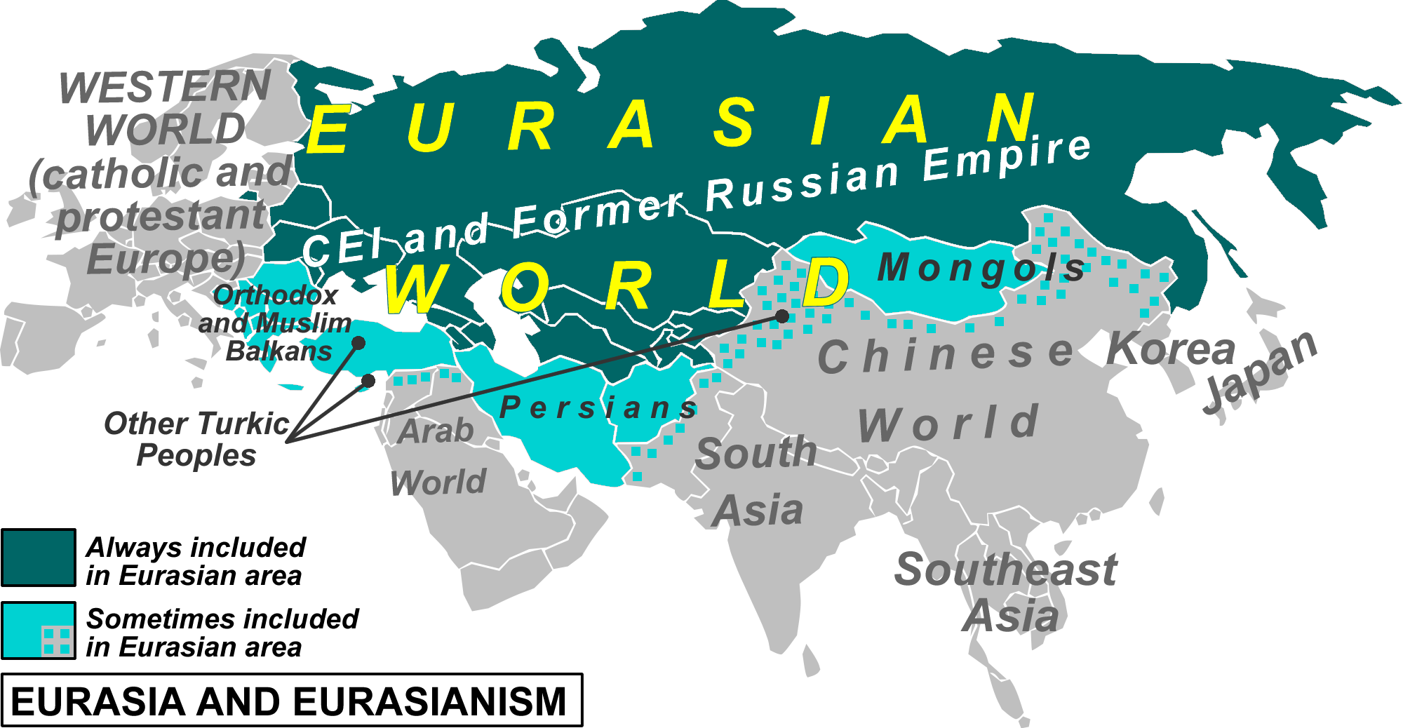 Maps of Eurasia for eurasianist movment